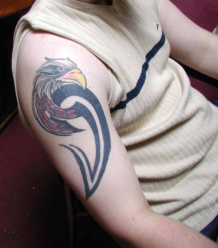 Tattoo of an eagle.